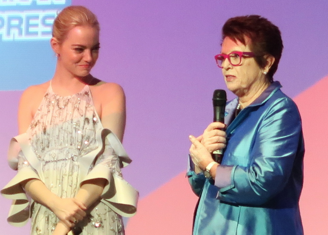 Simon Beaufoy, Valerie Faris, Jonathan Dayton, Elisabeth Shue, Andrea Riseborough, Emma Stone and Billie Jean King at Battle of the Sexes, London